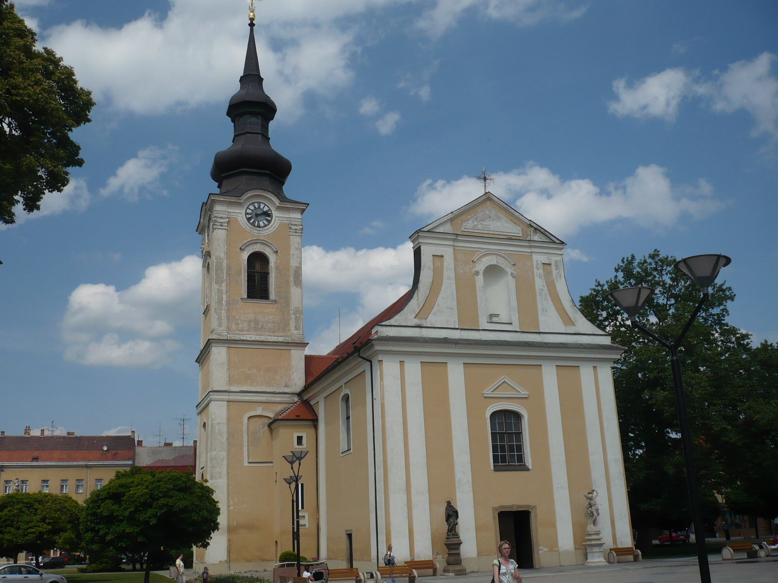 Hodonin - The St. Lawrence Church